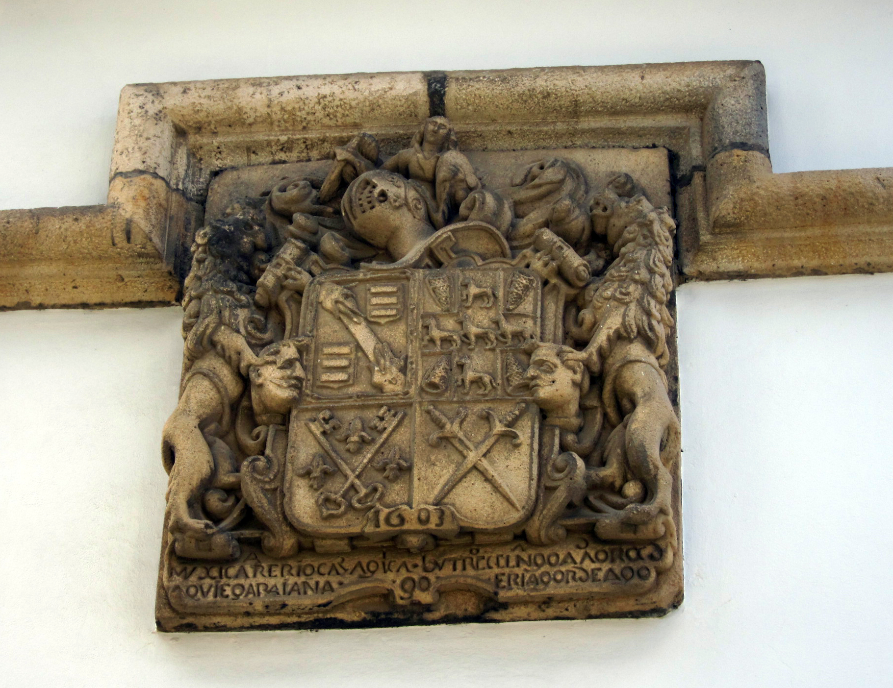 Coat of arms in the manor house of Torrebarri in Plentzia (Vizcaya, Basque country). The Lords of Butrón, main lineage of the region, built a manor house in the village with military character, which was renewed in 1603, date in which the coat of arms we can see today was placed. The current building is the result of a transformation of the tower to be adapted as residential housing, keeping some stylistic and decorative elements. The beautiful coat of arms of the Múgica-Butrón lineage has an engraved inscription in Basque, with the date of 1603 and one of the earliest preserved epigraphic inscriptions in this language: "Muxica Areriocaz Agica / Butroe Celangoada Oroç / Daquie Garaia Na Go / Eria Gordeago" that is to say: "Múgica biting its enemies / Butrón everyone knows how it is / winner I am / people be in guard."